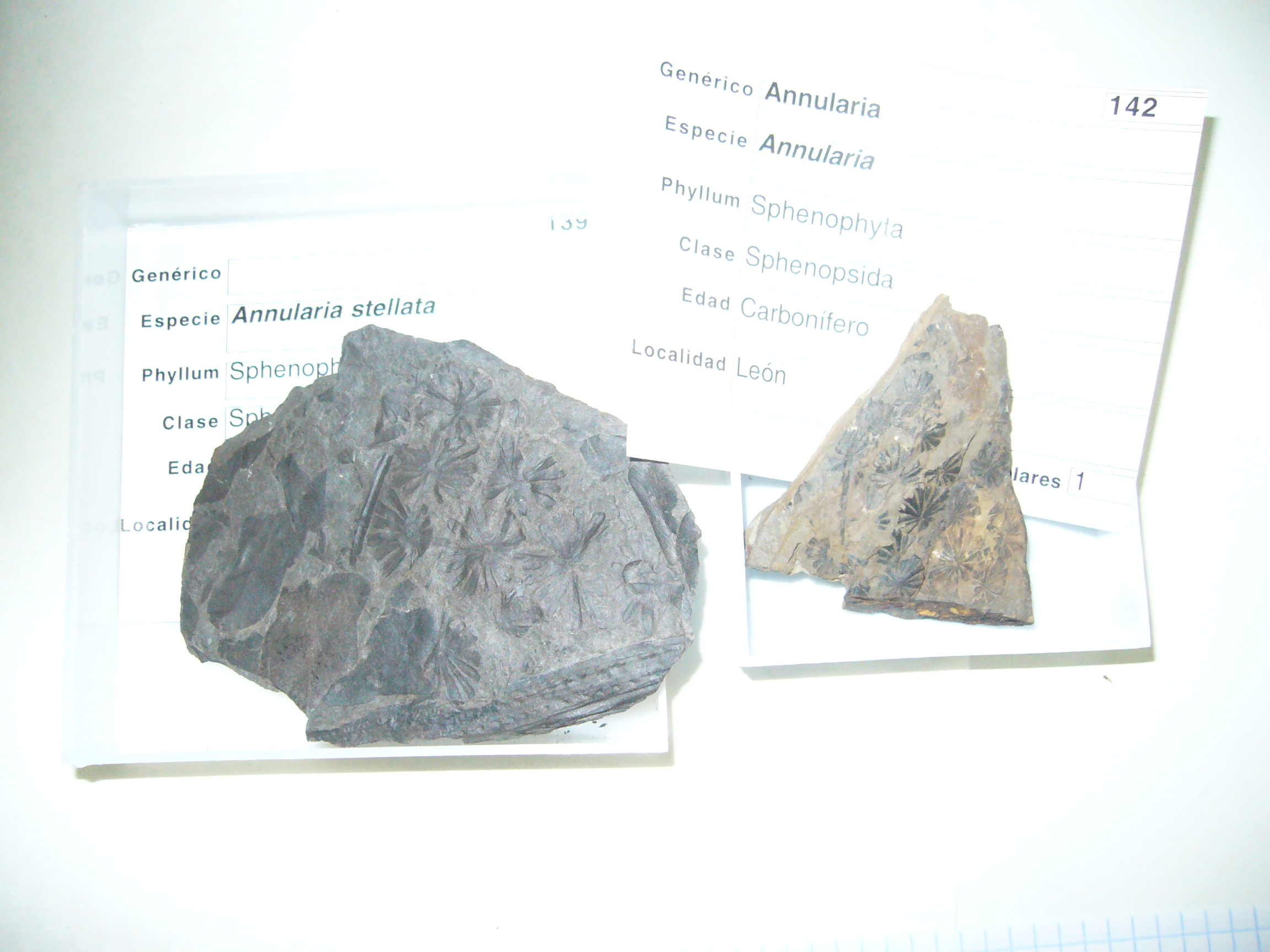 Annularia sp. fossil in a laboratory of practices of the Faculty of Sciences of the University of Corunna.